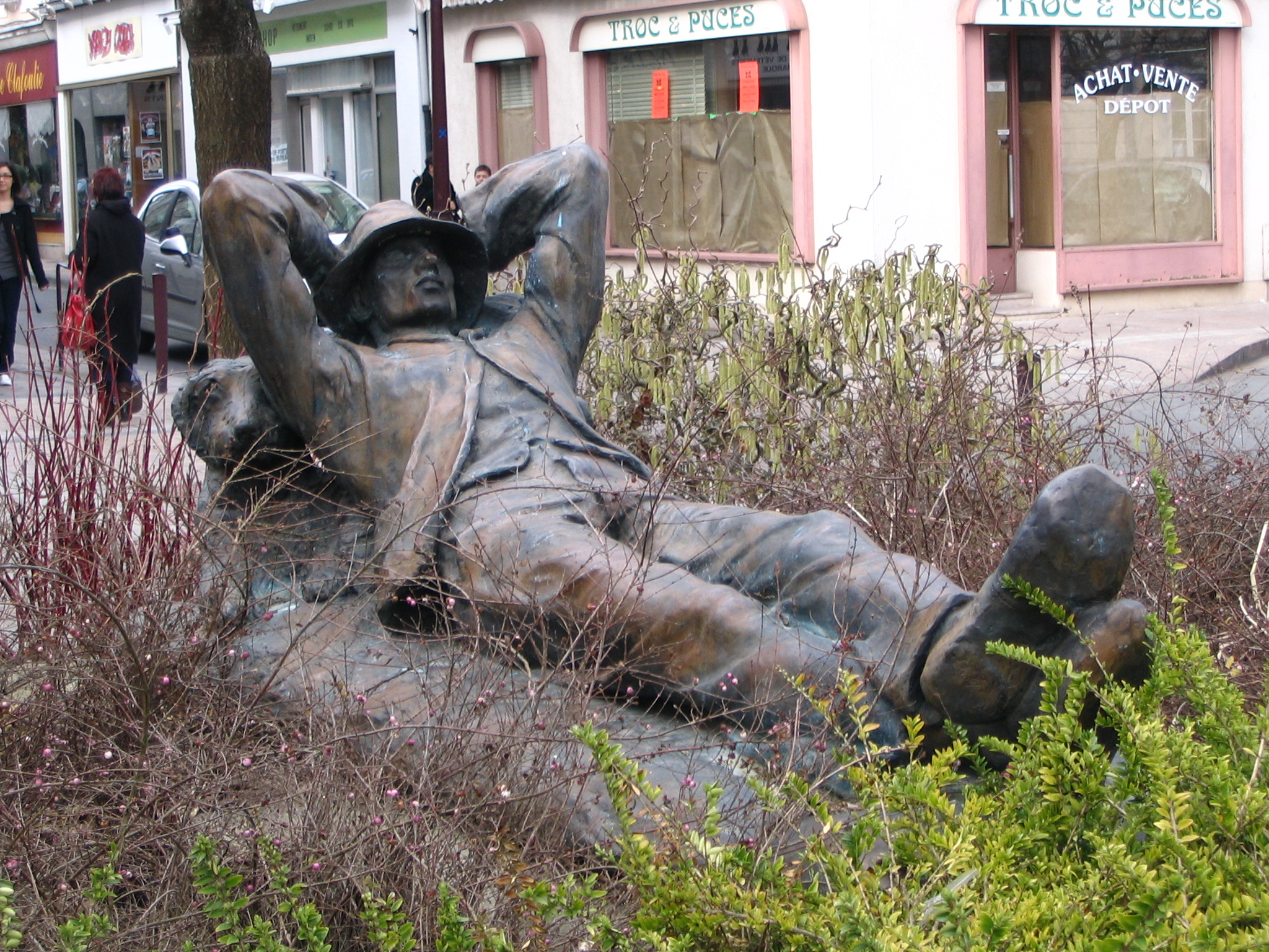 "The shepherd lying with his dog", by Ernest Nivet, in Châteauroux, Indre, France.